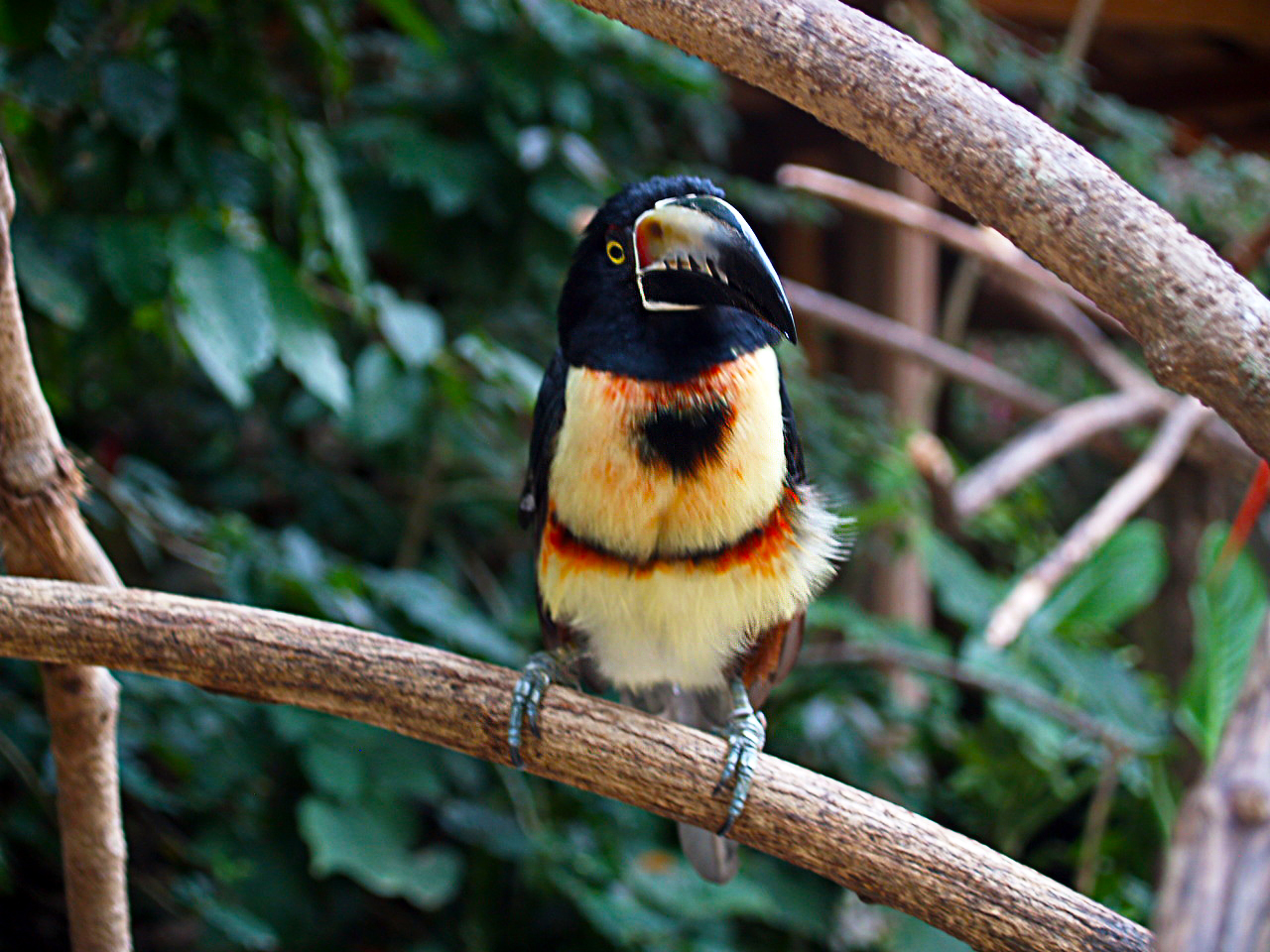 A Collared Aracari at Macaw Mountain Bird Park, Honduras.